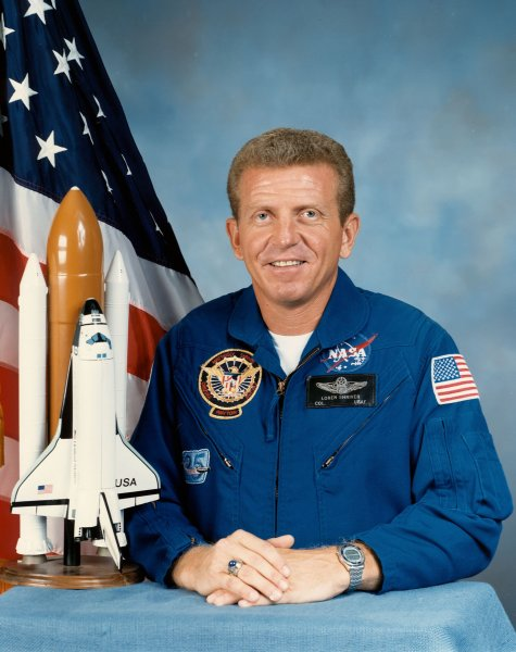 Loren James Shriver